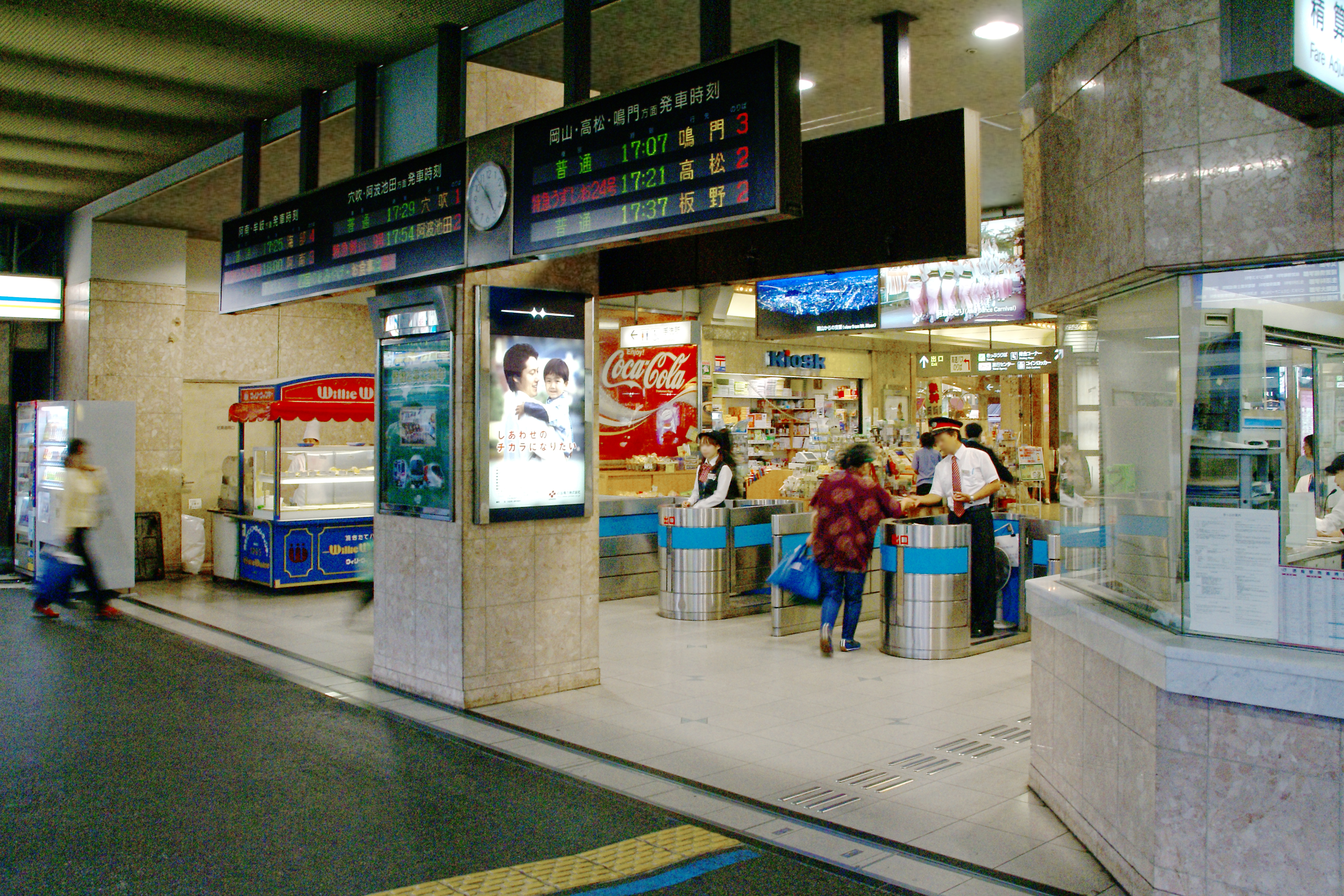 Tokushima Station in Tokushima, Tokushima prefecture, Japan